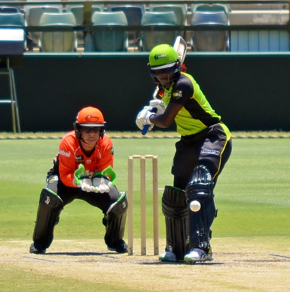 Stafanie Taylor on her way to 57 for Sydney Thunder (WBBL) against Perth Scorchers (WBBL) at the WACA Ground, Perth, Australia. The Scorchers wicketkeeper is Jenny Wallace.